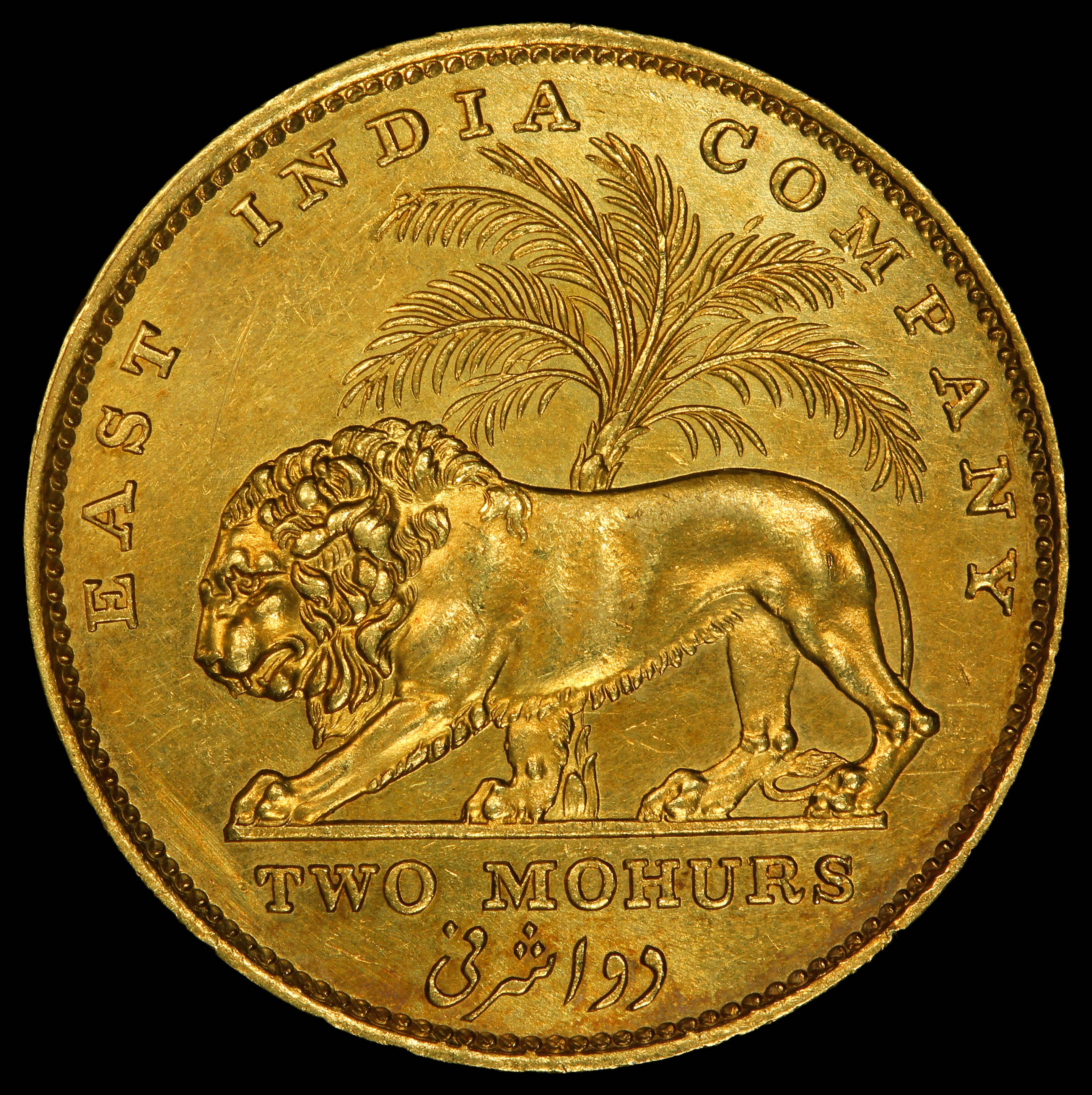 India 1835 2 Mohurs (rev)